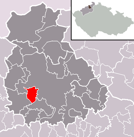 Location of Trmice town within Ústí nad Labem District and administrative area of Ústí nad Labem as a Municipality with Extended Competence.